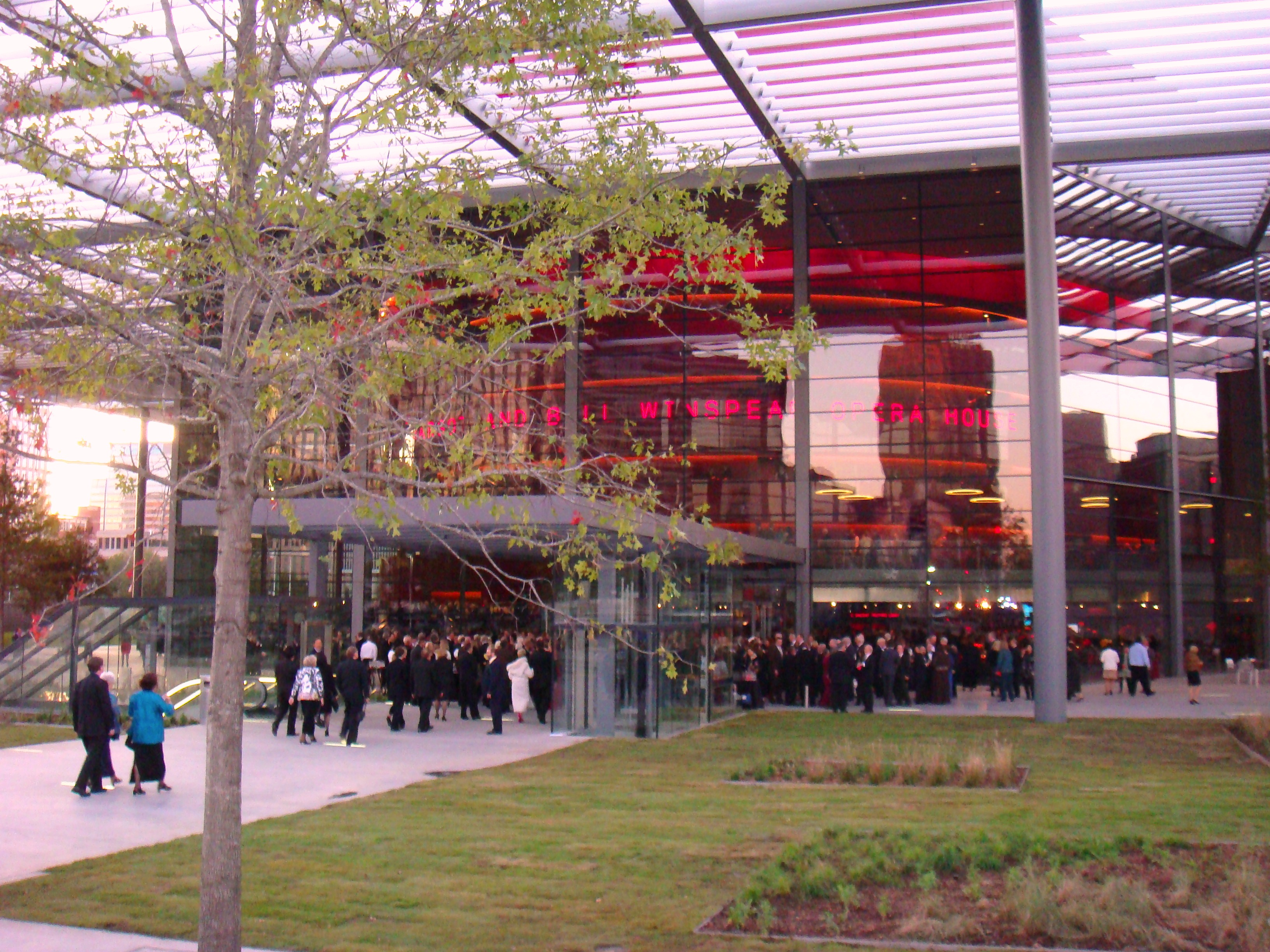 The exterior of the Winspear Opera House on opening night, 2009.